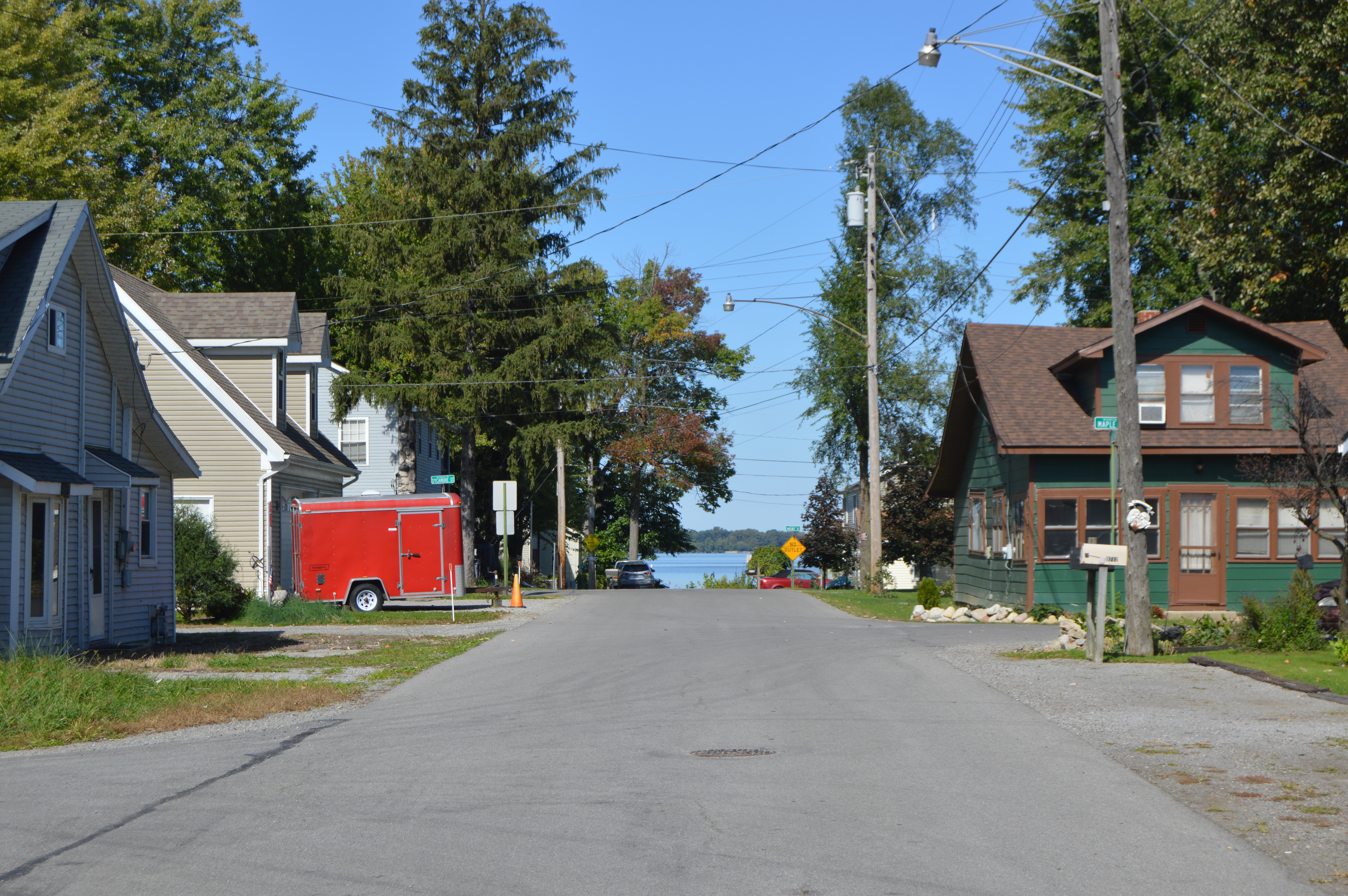 Houses on Mauger Avenue, looking north from Elm Street, on Orchard Island in Washington Township, Logan County, Ohio, United States. Indian Lake is visible in the background.